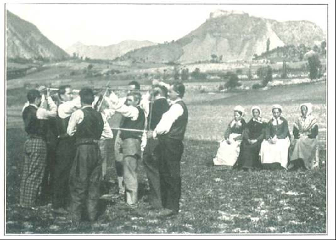 The bacchu-ber, Folk Sword dance in ther Hautes-Alpes, France, Pont-de-cervieres – 1877 rehearsal